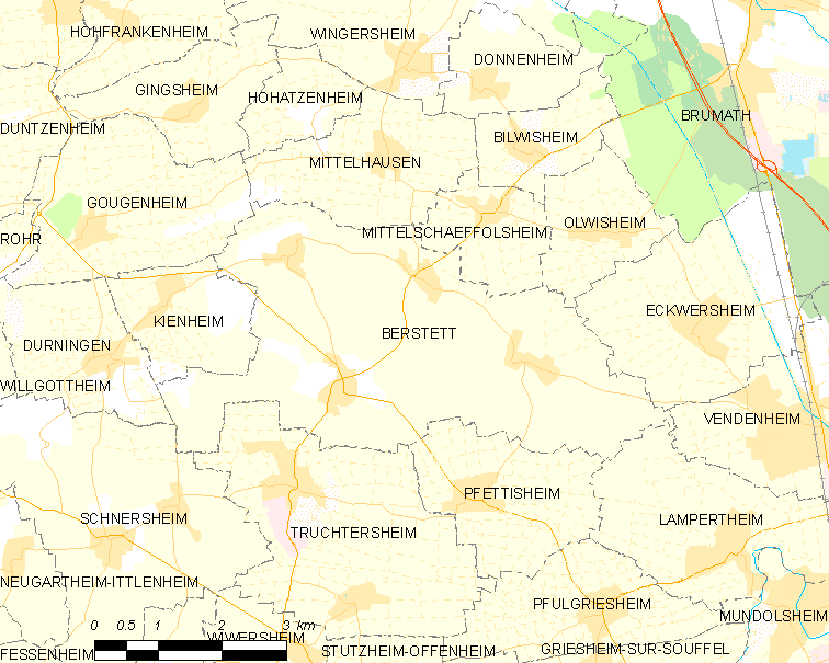 Map of French municipality